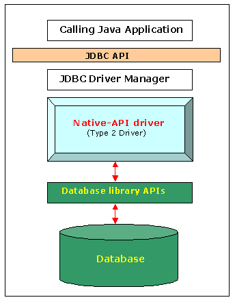 Schematic diagram of the JDBC type 2 driver Image created by Jay on Nov 2, 2003.